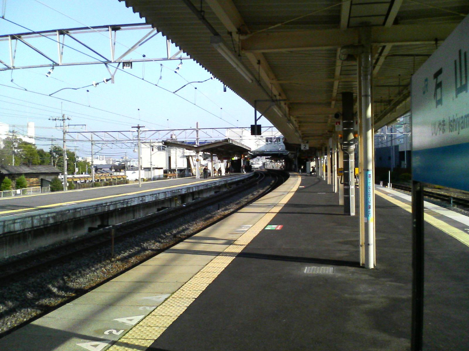 JR Ishiyama Station platform